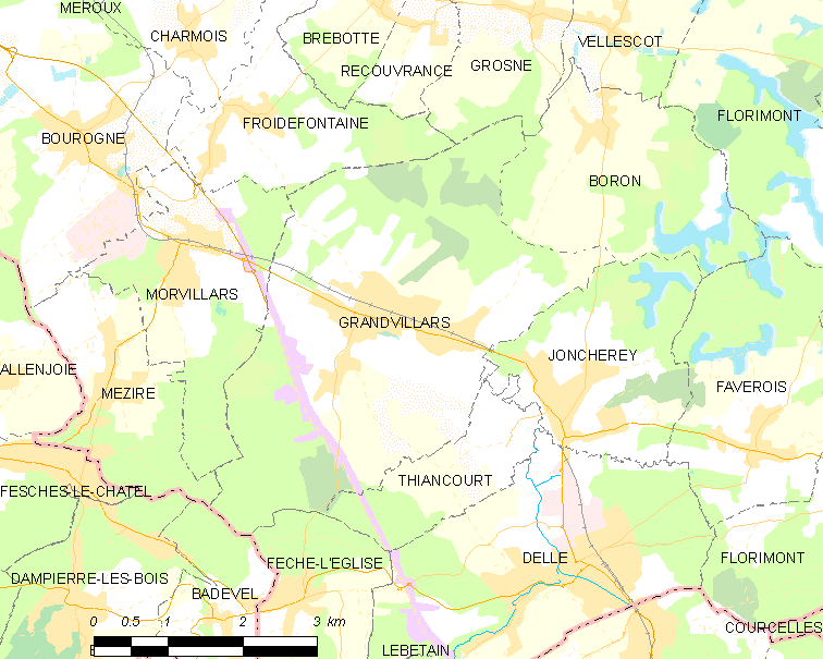 Map of French municipality Grandvillars